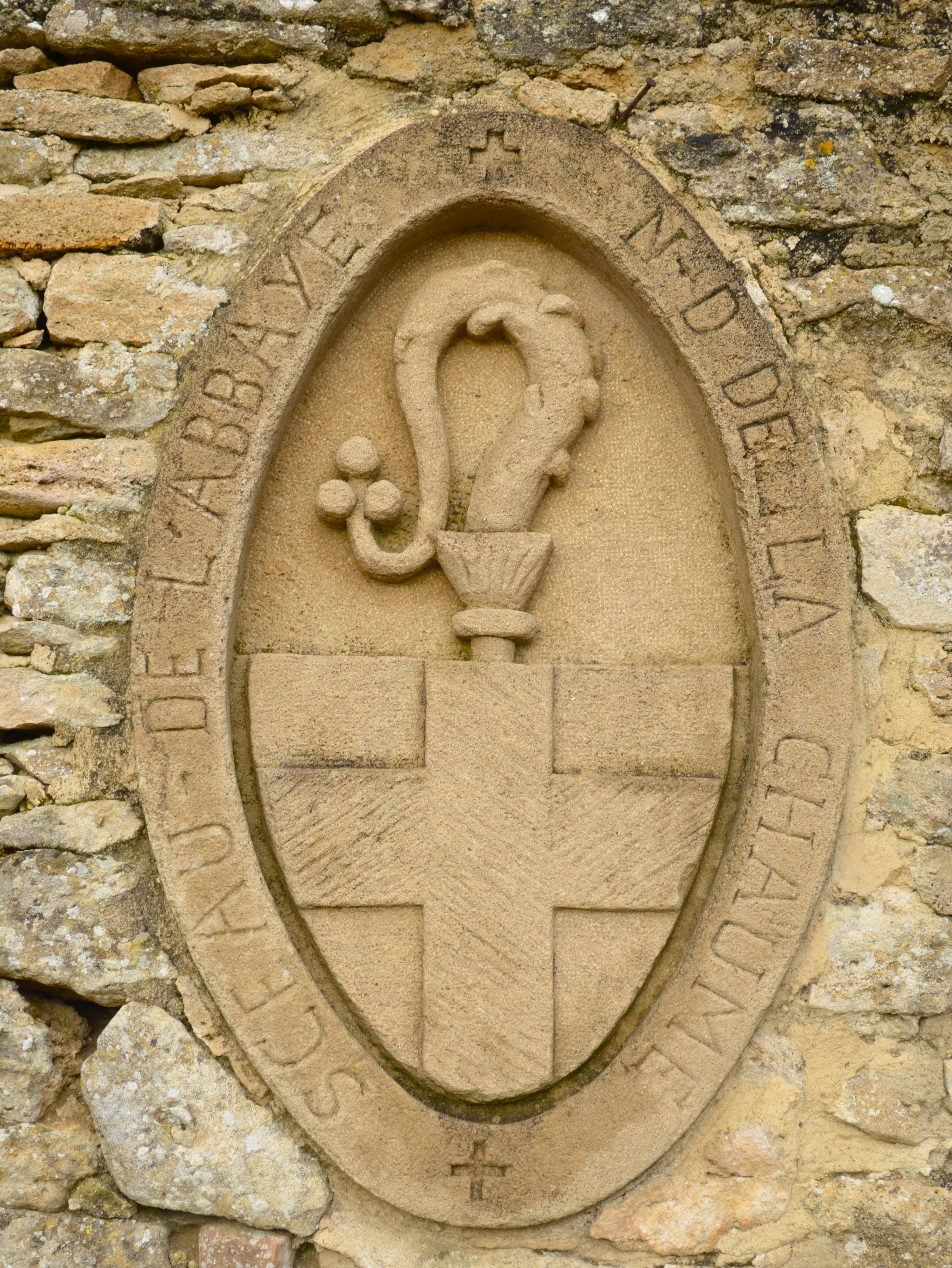 Seal of Notre-Dame-de-la-Chaume abbey - Machecoul, France